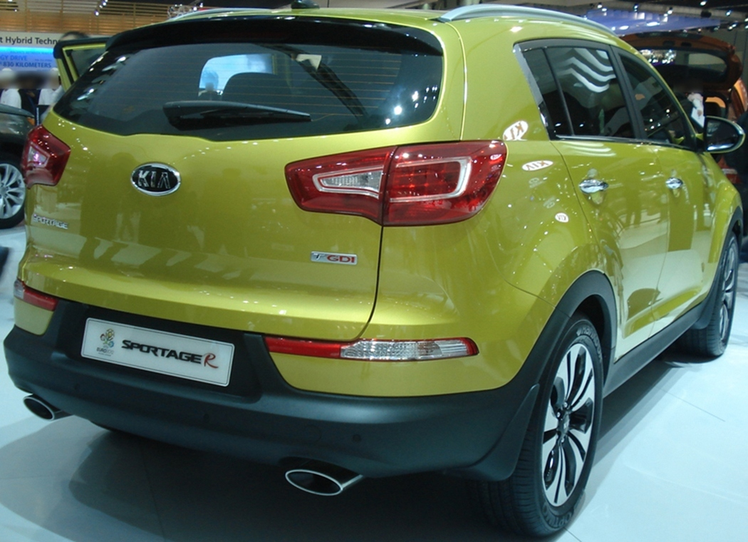 Kia Sportage R